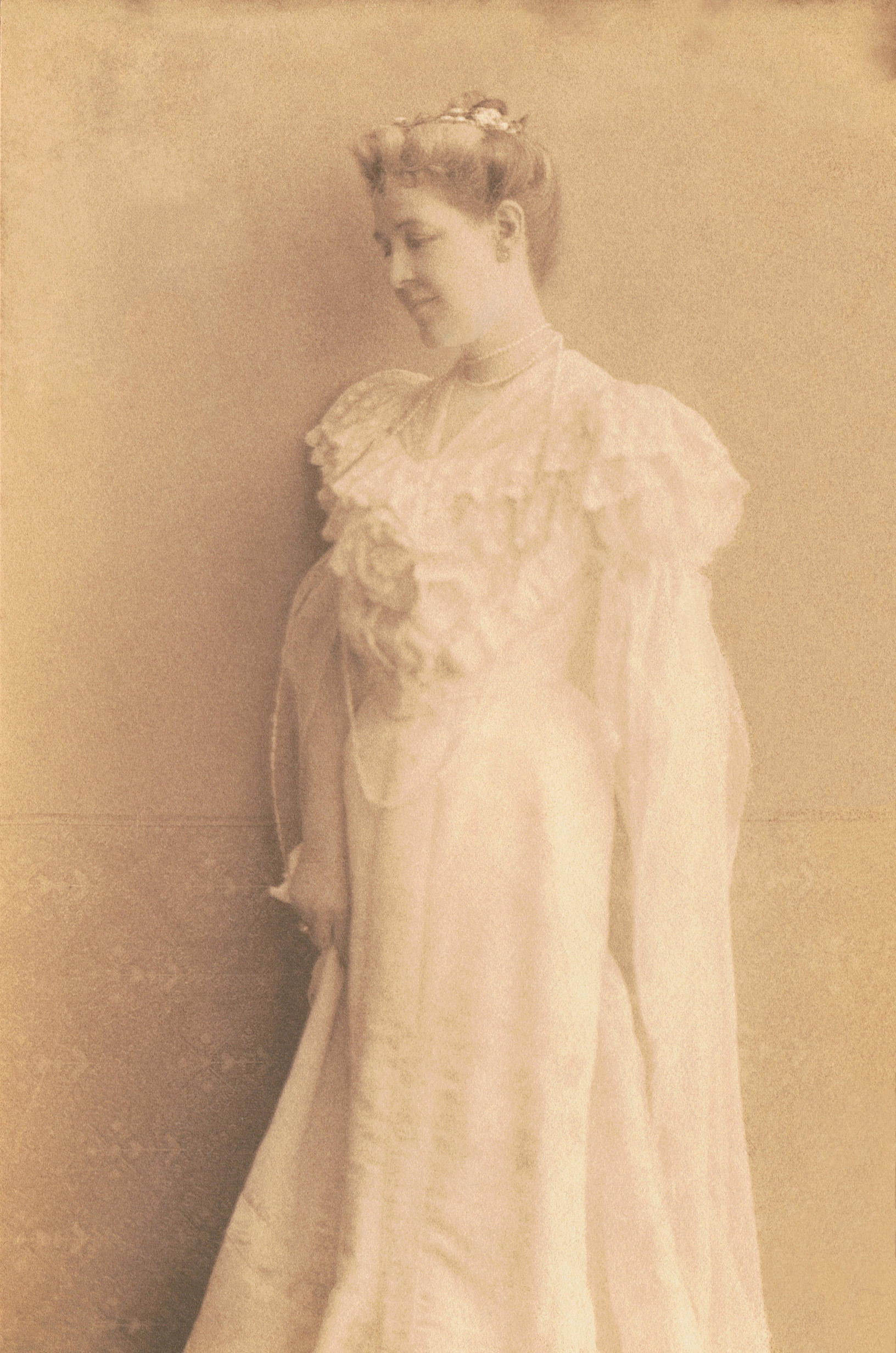 A platinum print photograph (retouch of the original) of Philadelphia poet Florence Earle Coates pasted into a 1905 reprint copy of Mrs. Coates' Poems (1898), which was inscribed to John H. Wisner, Jr. in 1909.